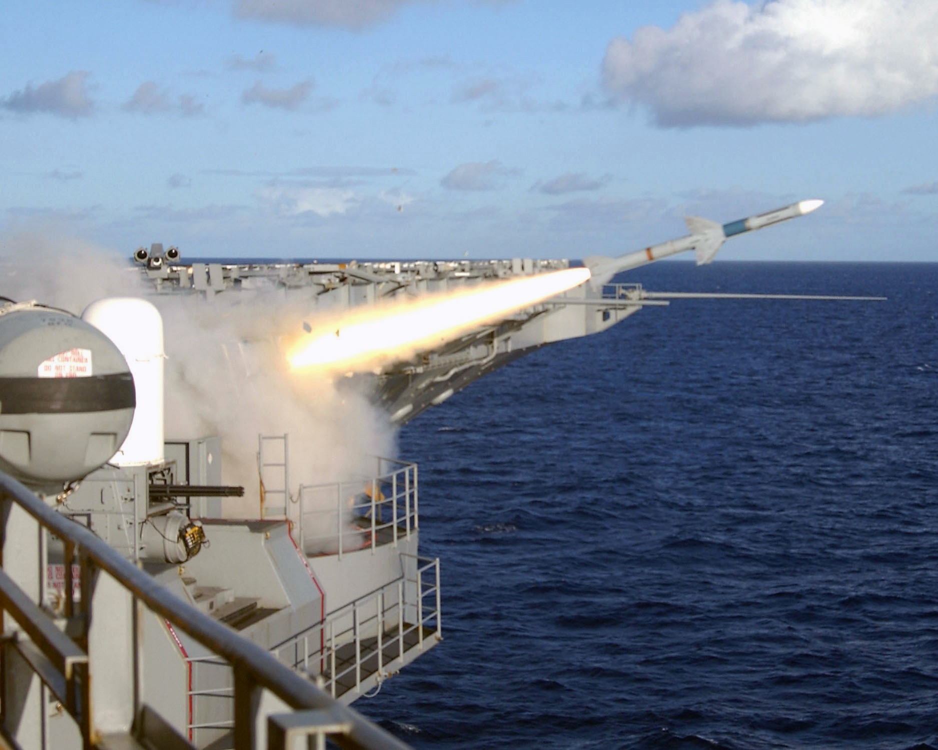 030114-N-3911W-502 At sea aboard USS Theodore Roosevelt (CVN 71) -- One of the ship’s “Sea Sparrow” RIM-7 surface-to-air missiles launches during a training exercise. The Navy uses the Sea Sparrow version aboard ships as a surface-to-air anti-missile defense. The versatile Sparrow has all-weather, all-altitude operational capability and can attack high-performance aircraft and missiles from any direction. Roosevelt is currently underway conducting training missions in the Atlantic Ocean.